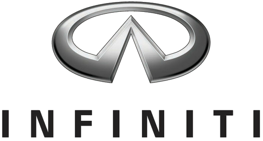 Official logo for the automaker, Infiniti.